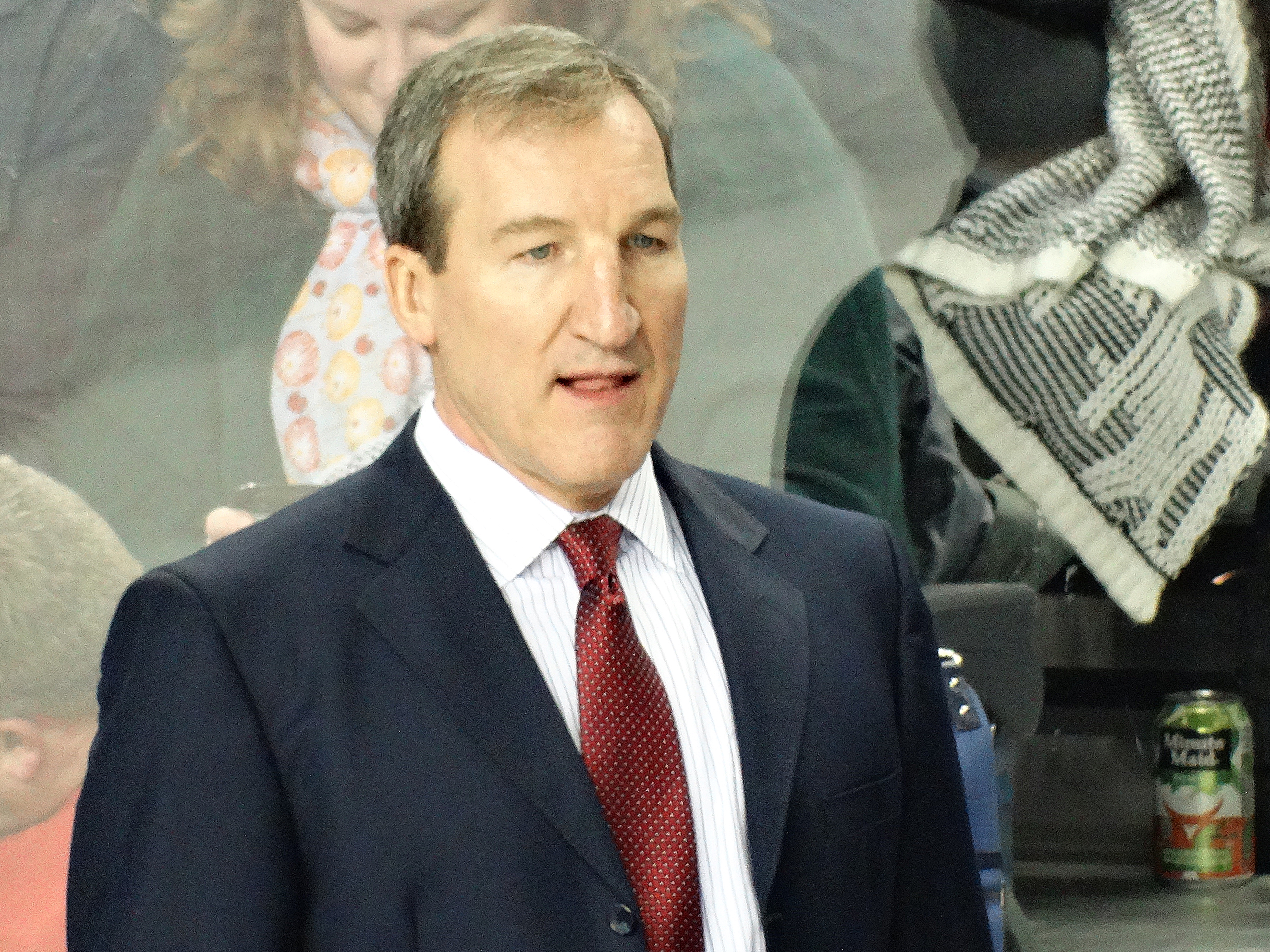 Tim Hunter, Canadian ice hockey manager at the CHL / NHL Top Prospects Game